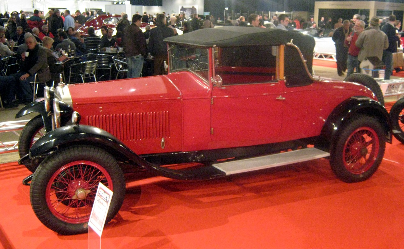 Alfa Romeo 6C 1500 Drophead Coupe by James Young 1928InterClassics & TopMobiel at the MECC in Maastricht.Had Dutch license "AM 20 18" in 2011 when auctioned for GBP 100,500. [1] Auction ad says this is matching-numbers "Super Sport" short chassis, single OHC (thus "Normale"), s/n 0111120, first registered 1929 in London; to Sweden in 1964; later to Holland.